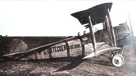 A Salmson 2 Berline of Latécoére Airlines (later Aéropostale), circa 1918